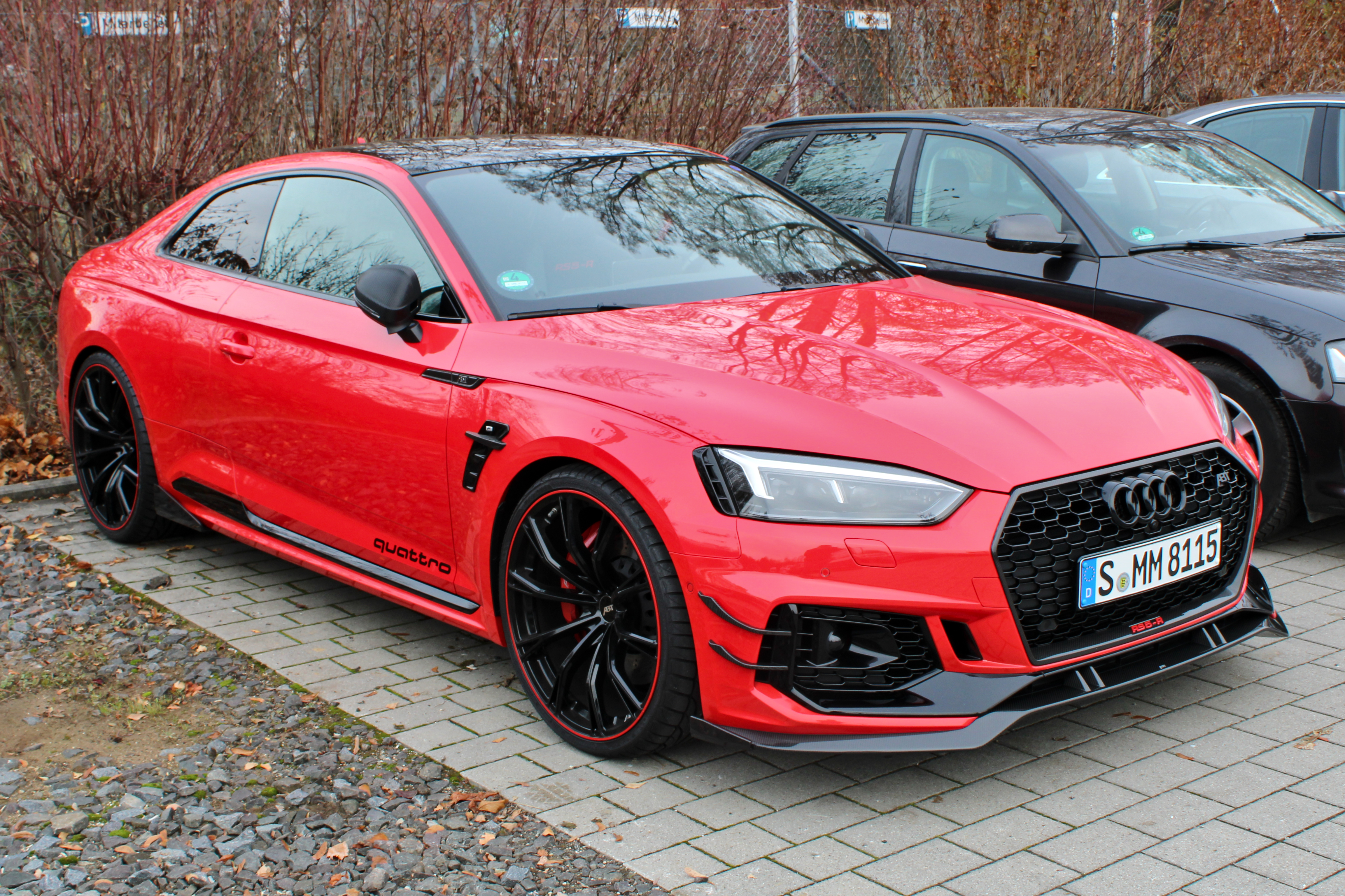 Abt RS5-R in Stuttgart-Vaihingen